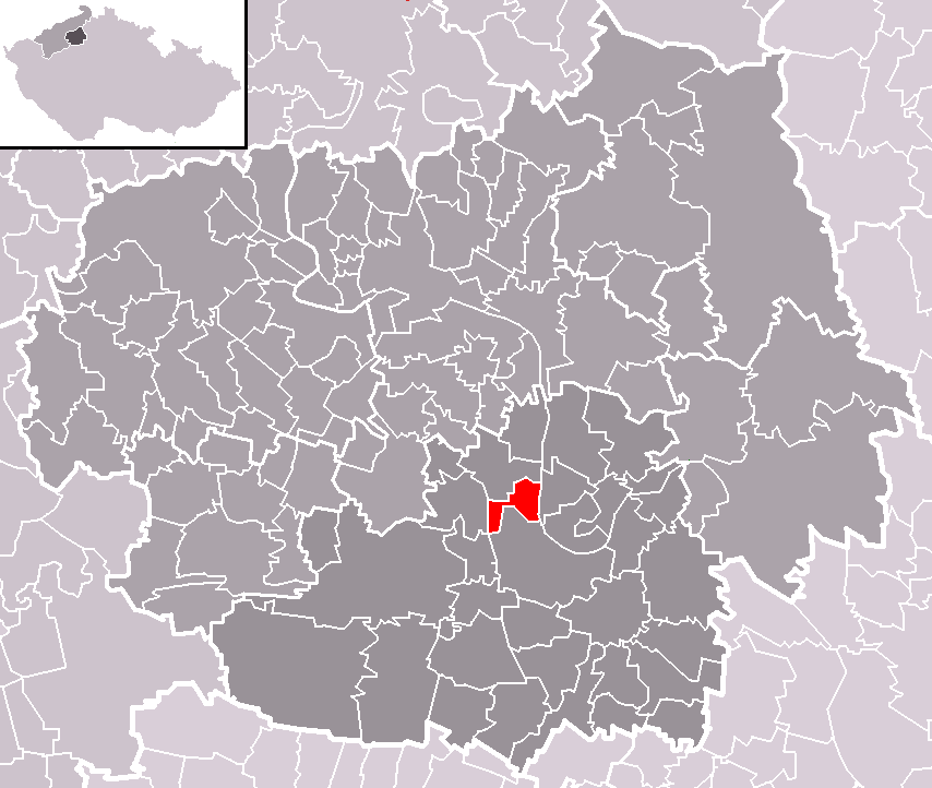 Location of Židovice municipality within Litoměřice District and administrative area of Roudnice nad Labem as a Municipality with Extended Competence.